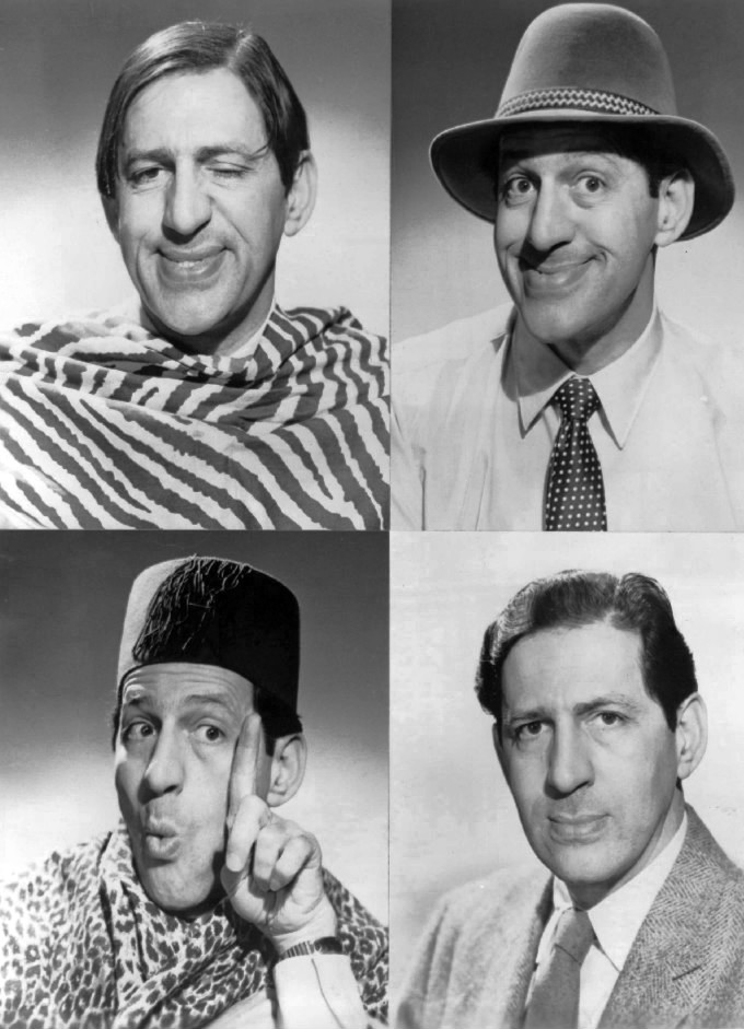 Publicity photo of Dayton Allen who was a regular on The Steve Allen Show. Pictured are some of the characters he performed on the show; in lower right is a photo of Allen as himself.